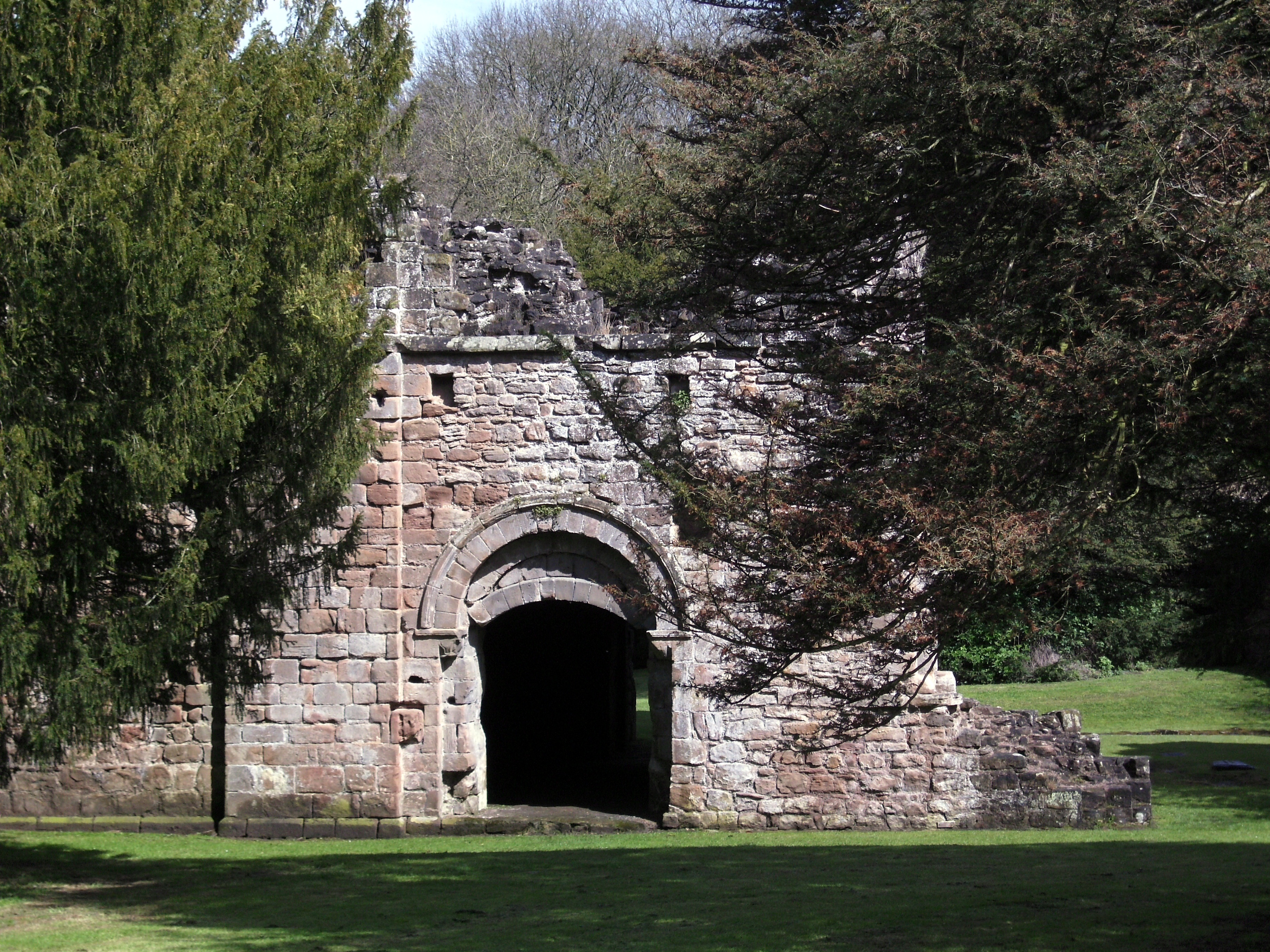 Domestic buildings, called west range on site, but actually the western end of the south range. Included the abbot's lodging. Lilleshall Abbey, Lilleshall, near Telford, Shropshire.